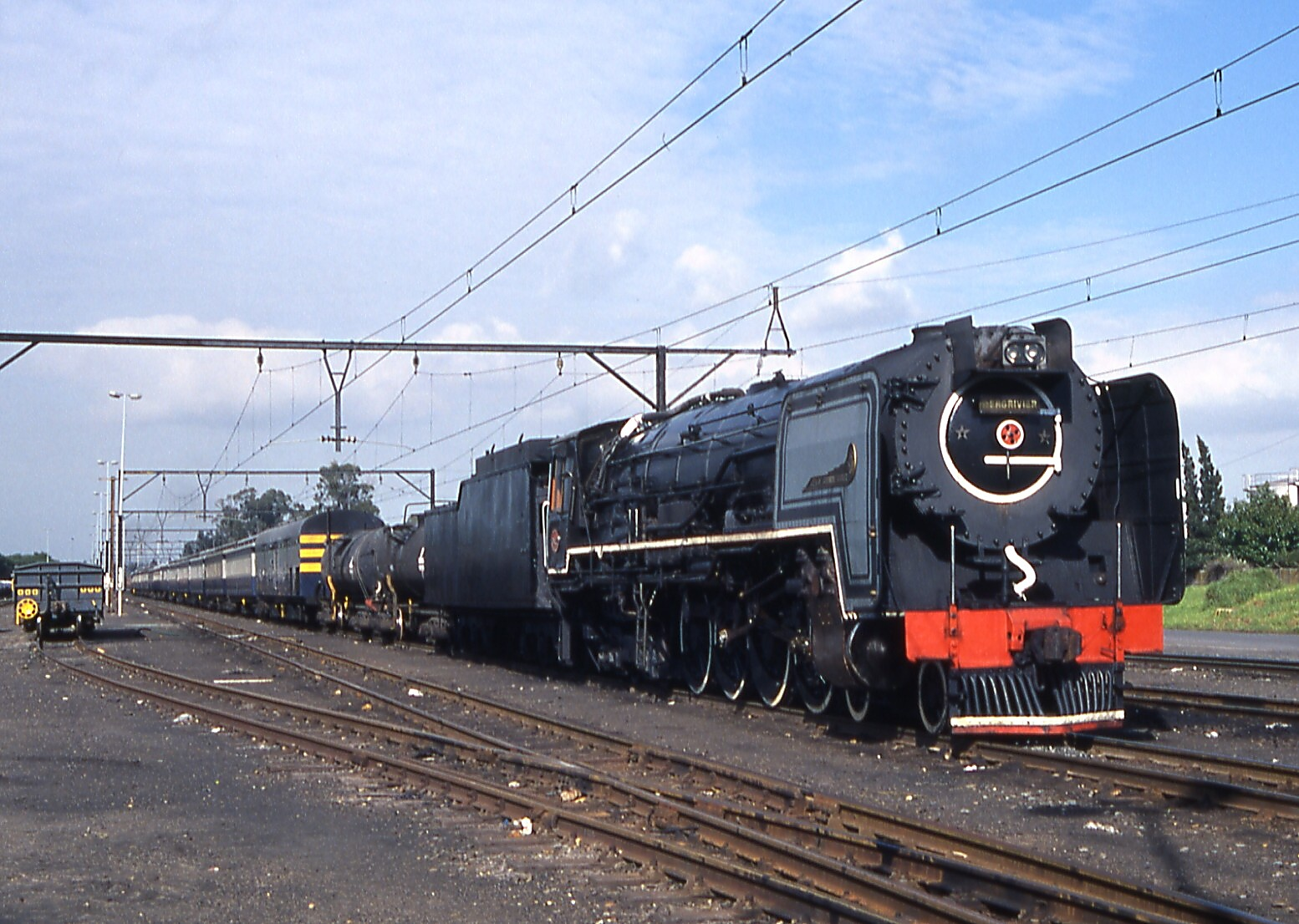 SAR Class 25NC 3422 (4-8-4) Builder's Number: Henschel 28741